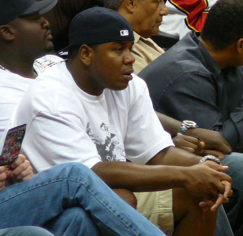 User:Chrisjnelson agreed to license this image of Byron_Leftwich.jpg under a free attribution license. Any use of this image must be attributed; this means that Photo by Chris Nelson